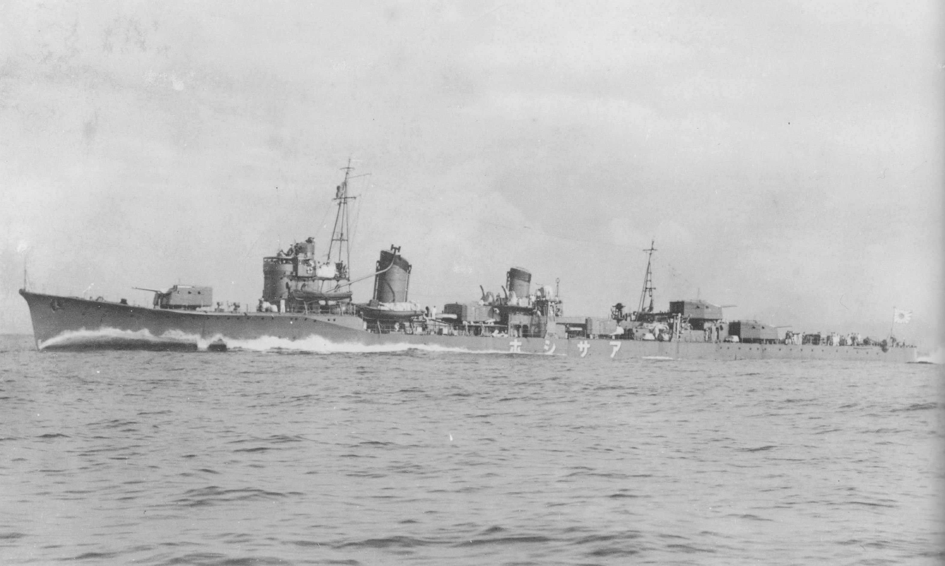 Imperial Japanese Navy destroyer Asashio, the second Japanese warship to bear that name.